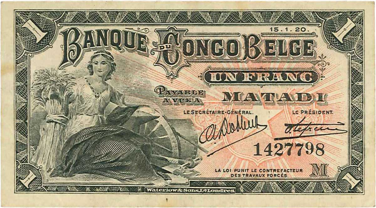 1 franc du Congo belge daté de 1920